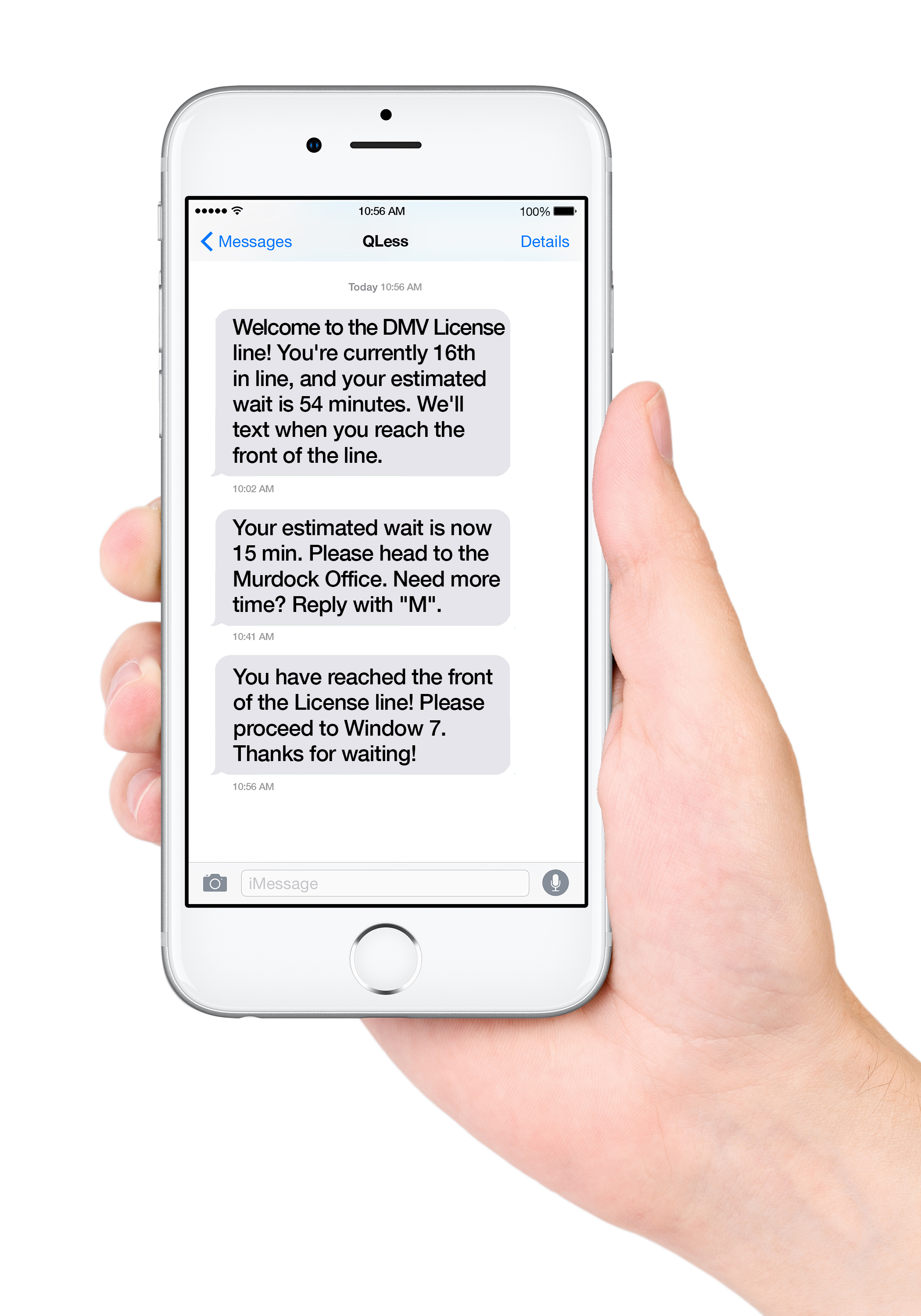 Mobile phone text messages, mobile queue